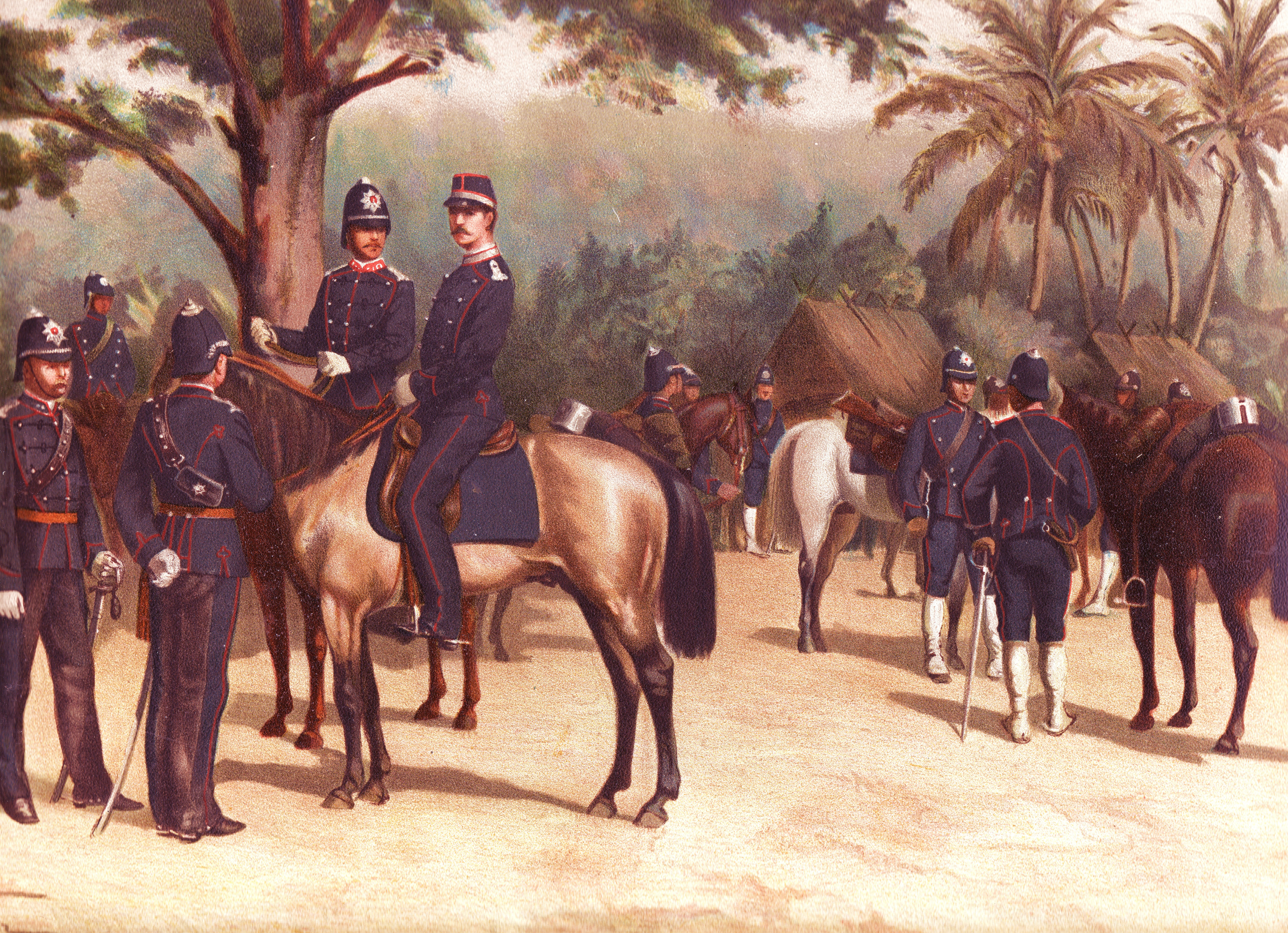 Cavalerie Oostindisch leger